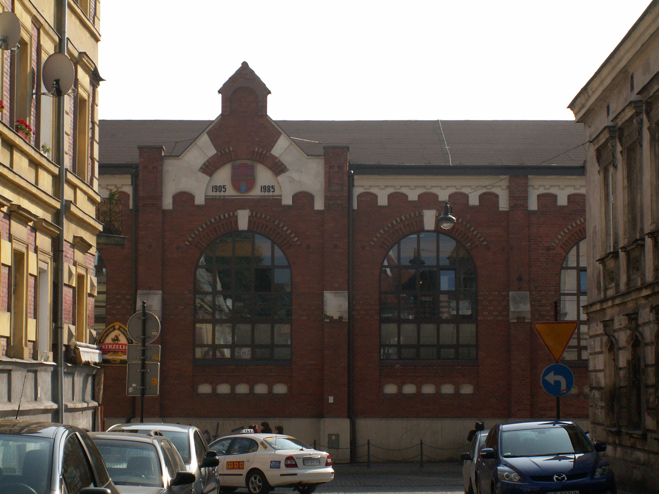 Krakow old power station,25 sw. Wawrzynca street,Kazimierz, Krakow,Poland